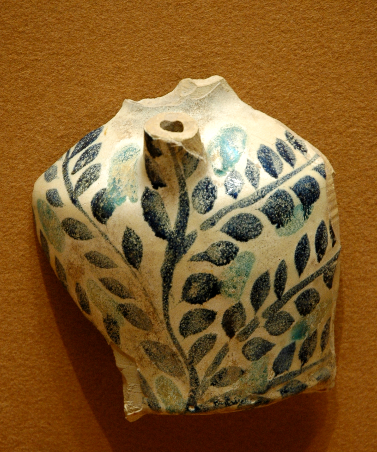 Fragment of a pottery, the bottleneck is typical of Changsha ceramic and proves early relations between Iraqi and Chinese potters.